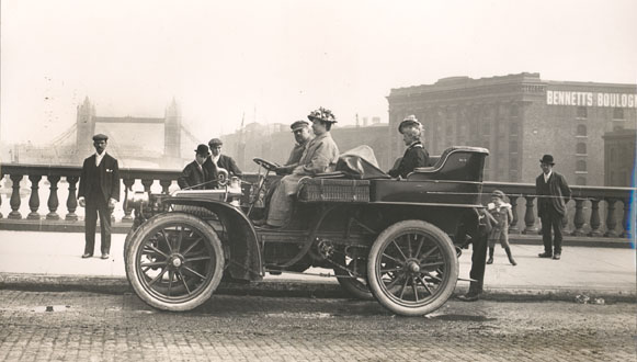 automobilist Charles Jasper Glidden with his wife Lucy in London during their round-the-world trip in a Napier car in 1902